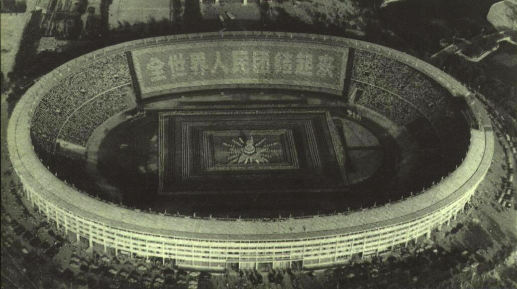 1965-12 1965年全运会2